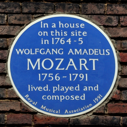 Blue plaque Mozart, 20 Frith Street, Soho, London